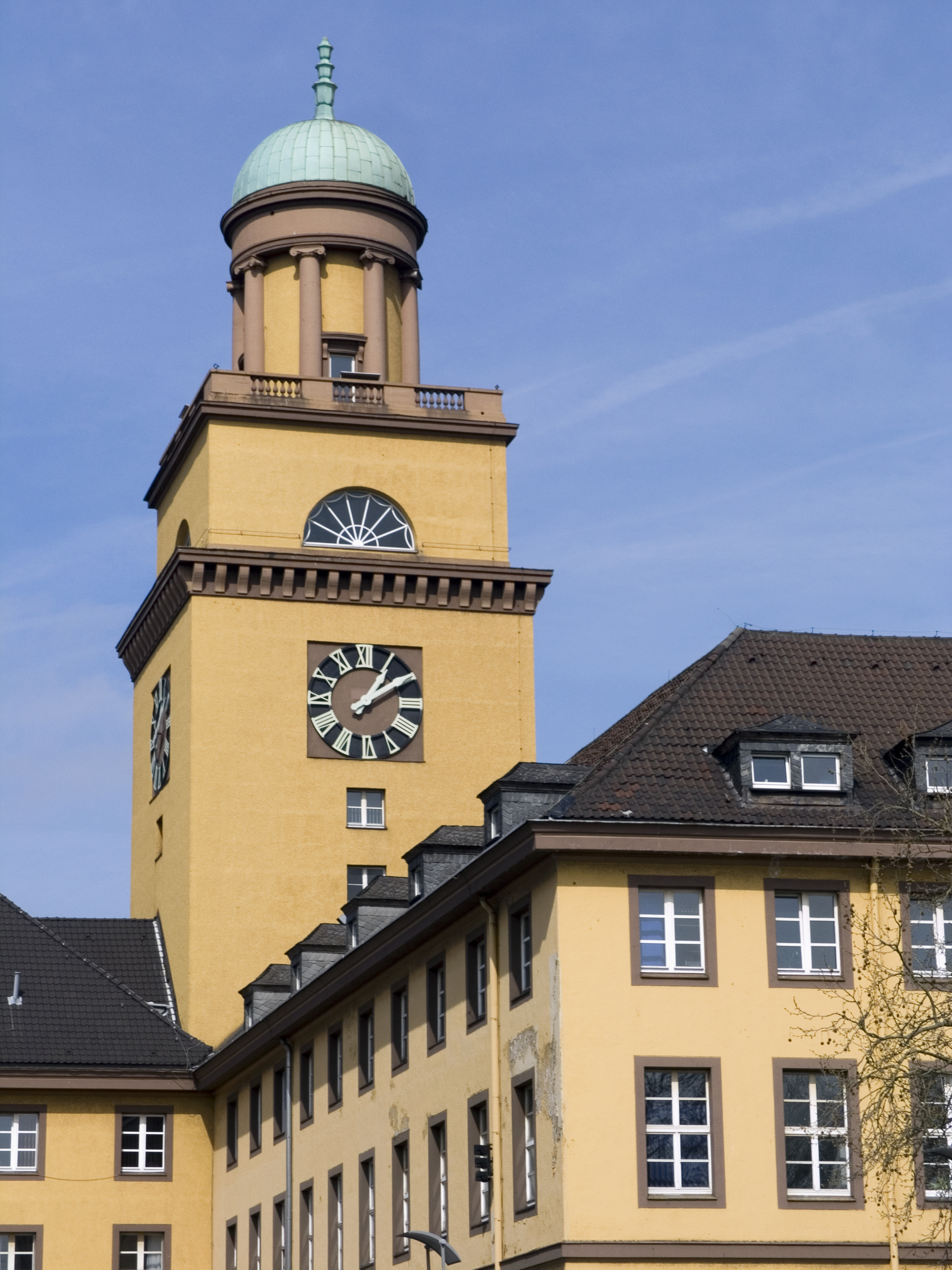 town hall of Witten